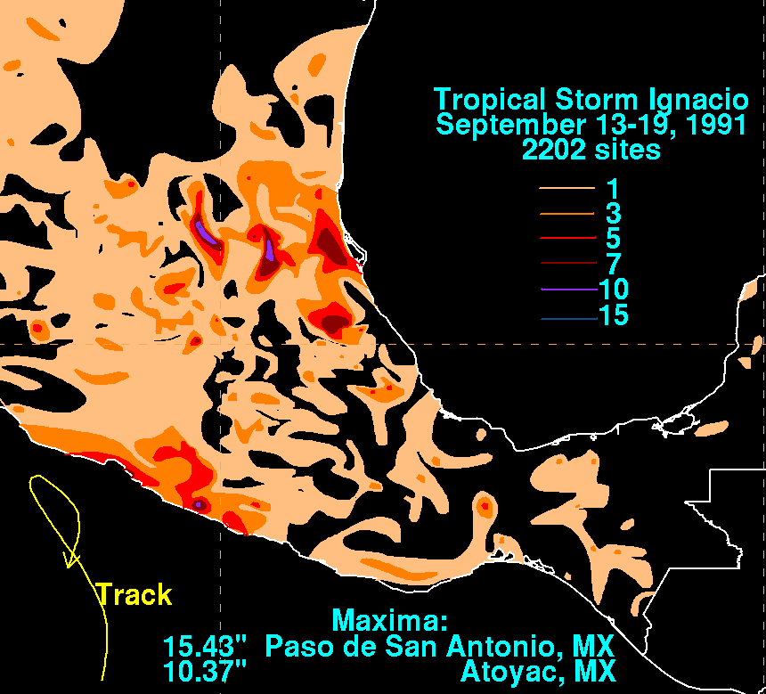 Rainfall produced by Tropical Storm Ignacio during September 1991.